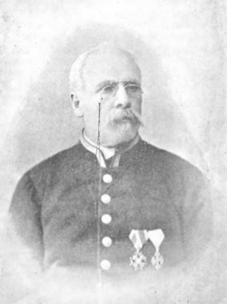 Ekvtime Kheladze (1846-1905), the owner of a Georgian print house in Tbilisi. 1902.